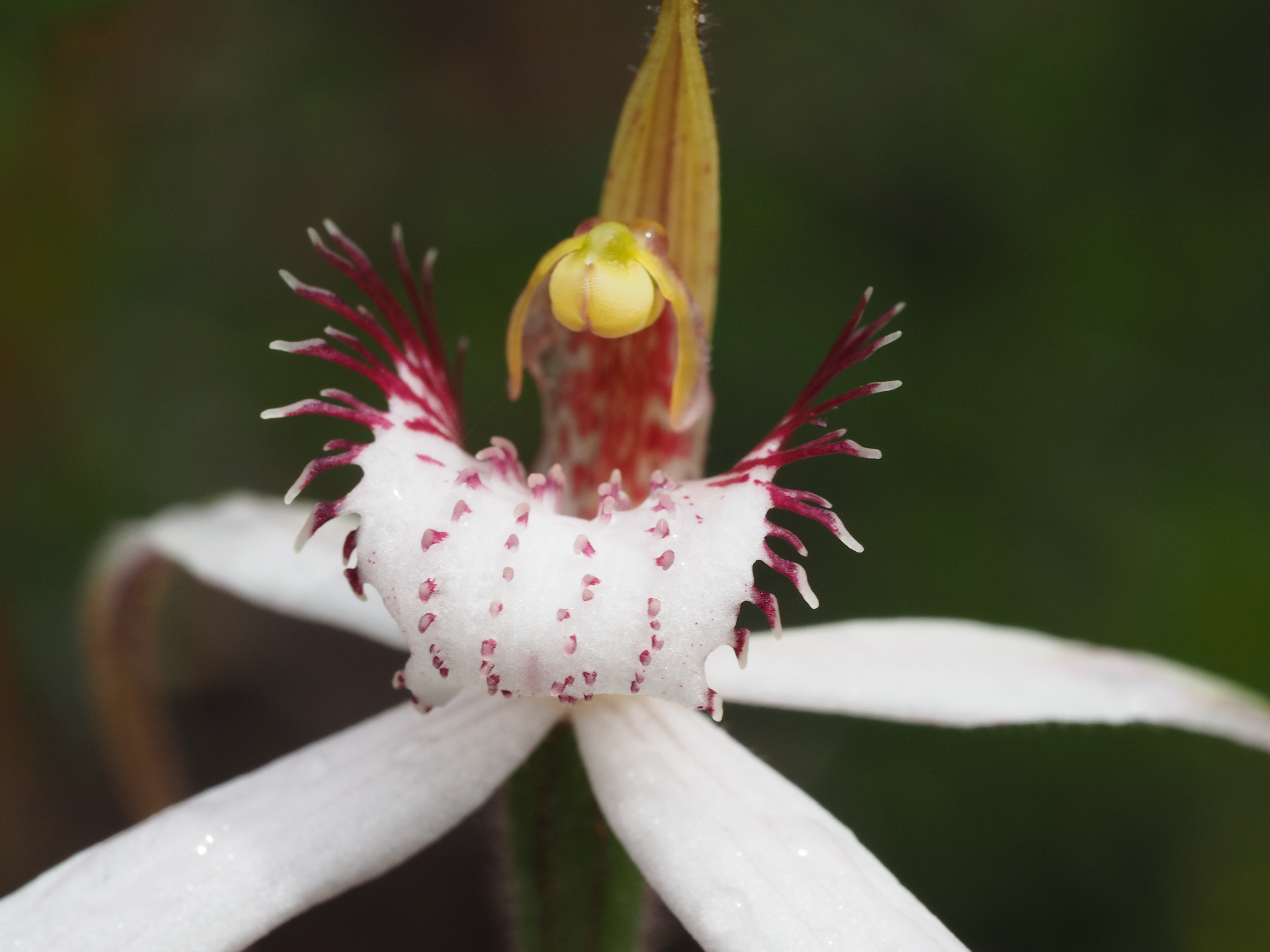 Caladenia longicauda subsp. clivicola growing at the base of a granite outcrop at Point Picquet near Dunsborough